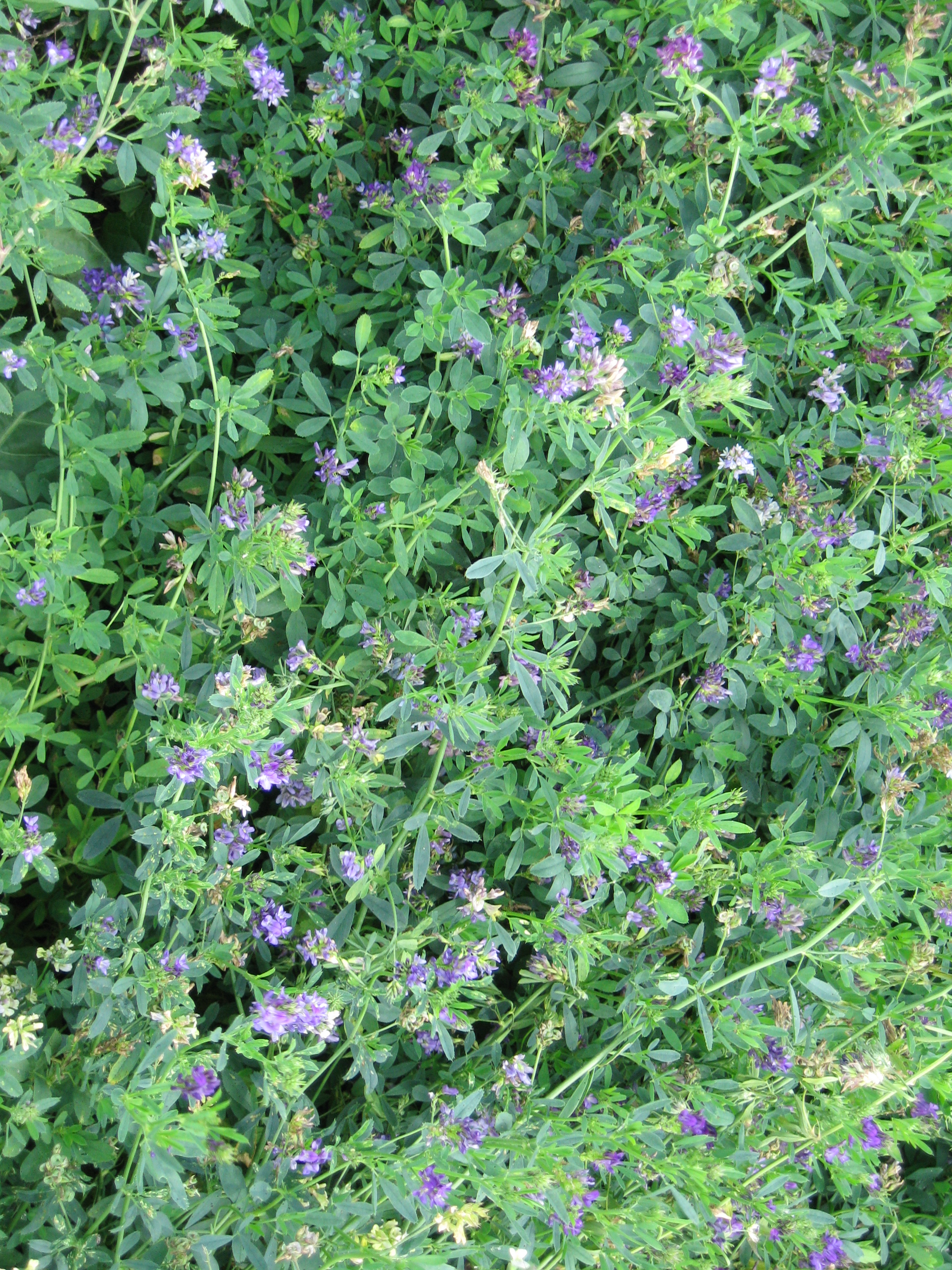 Medicago sativa at flowering